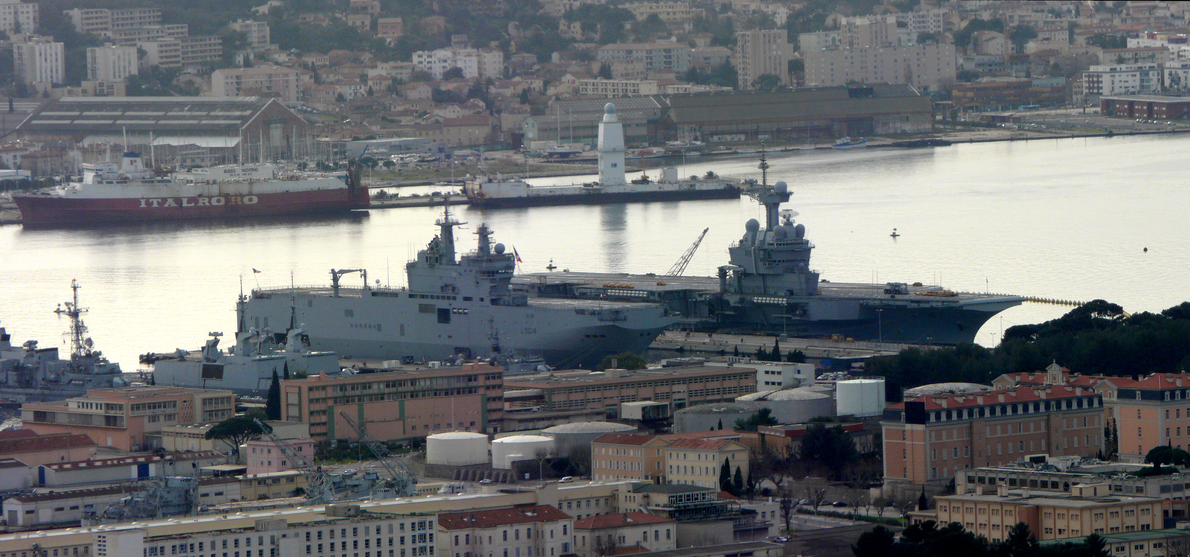 The Charles de Gaulle (ship) at Toulon harbour. The 'Tonnerre' (L9014) being before it.